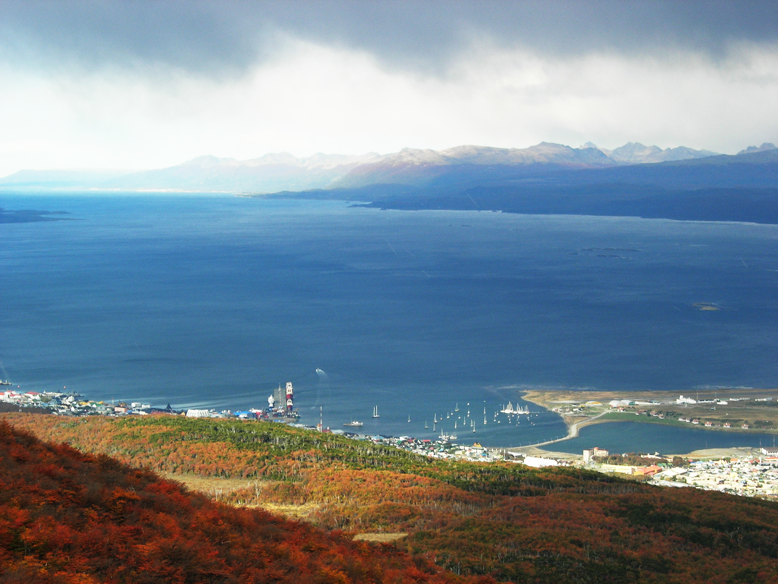 Ushuaia (Argentina) and the Beagle Channel